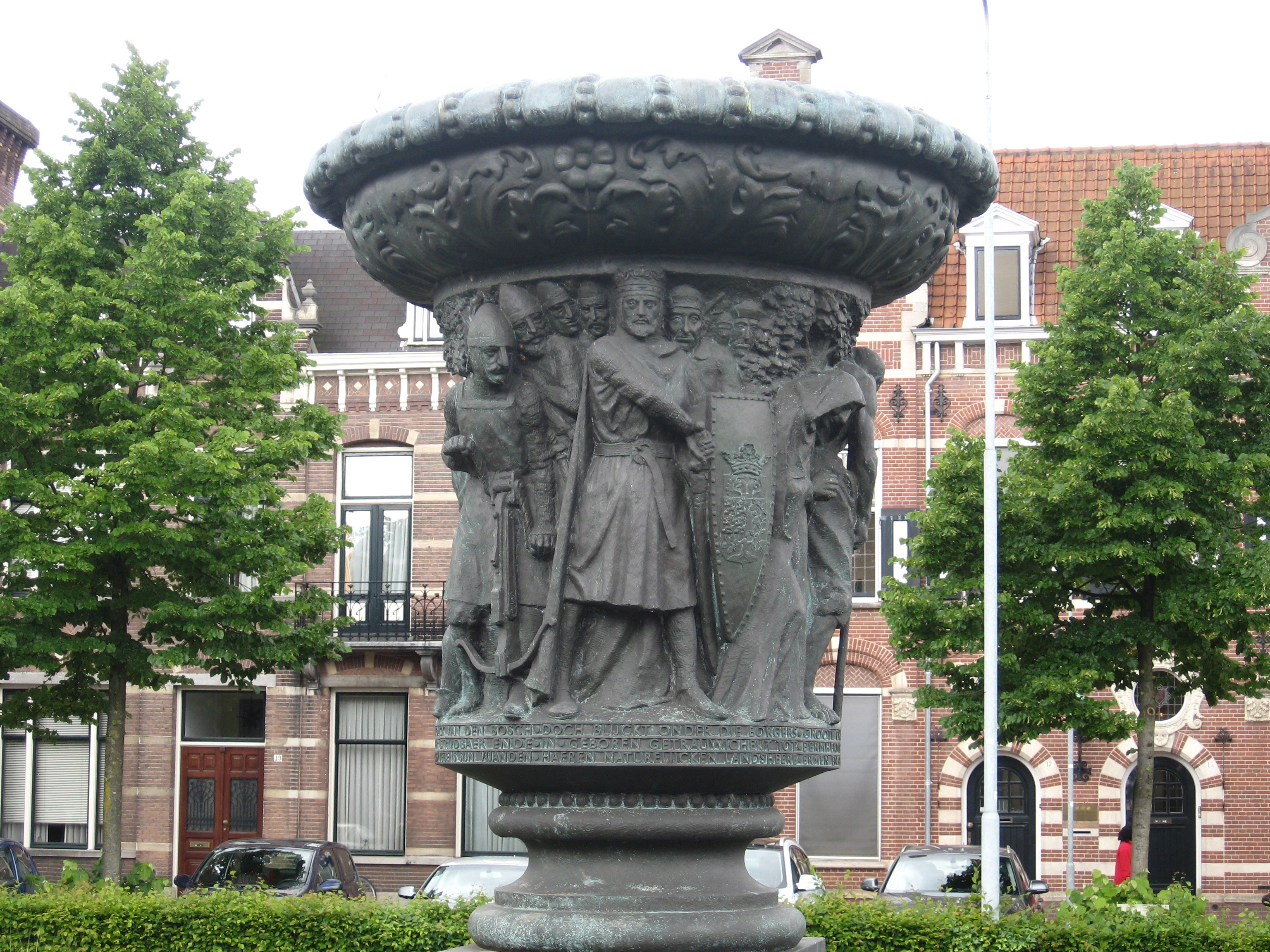 Vase of joy